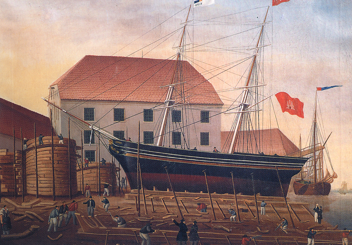 Painting showing the former shipyard of Johann Lange in Bremen-Vegesack (Germany), with the newly build brigg Emmy.